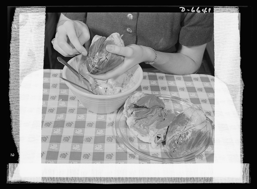 Title: "Share The Meat" recipes. Braised stuffed heart. Fill hearts with stuffing and sew up the slit with coarse thread